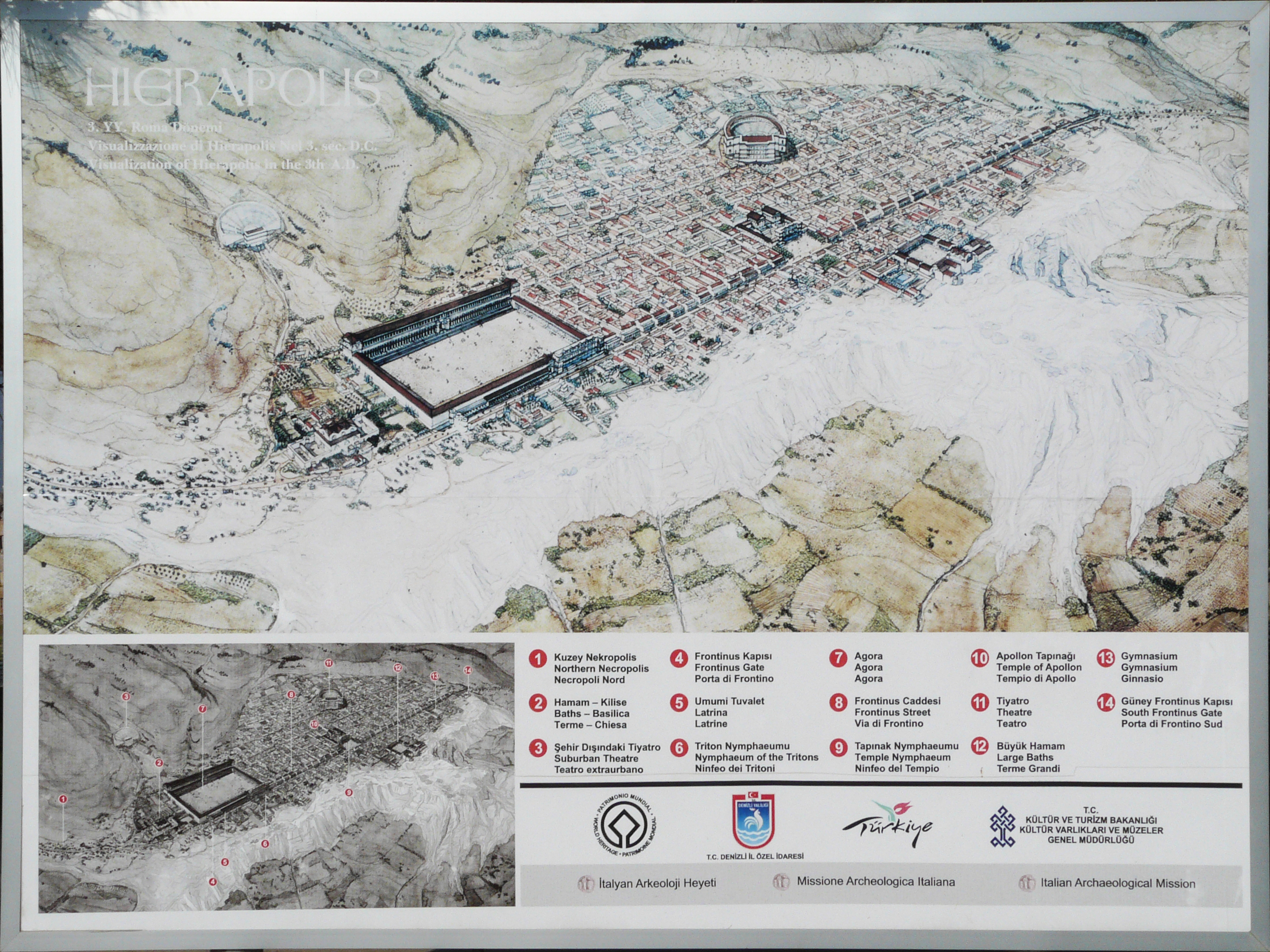 Old Hierapolis map